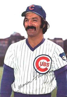 Professional baseball player Carmen Fanzone